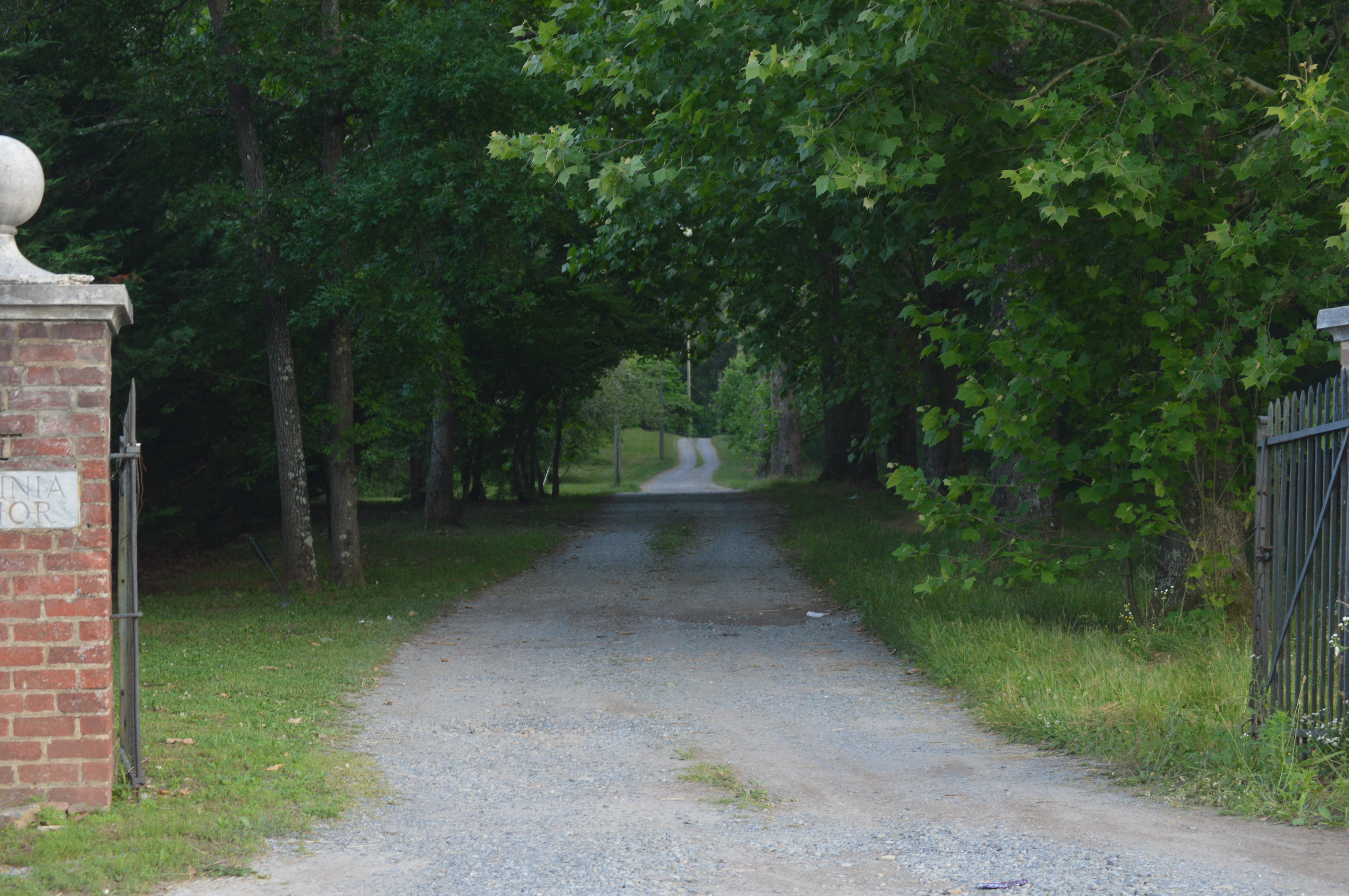 Driveway to Virginia Manor, located on State Route 130 east of Natural Bridge in Rockbridge County, Virginia, United States. The manor is listed on the National Register of Historic Places.